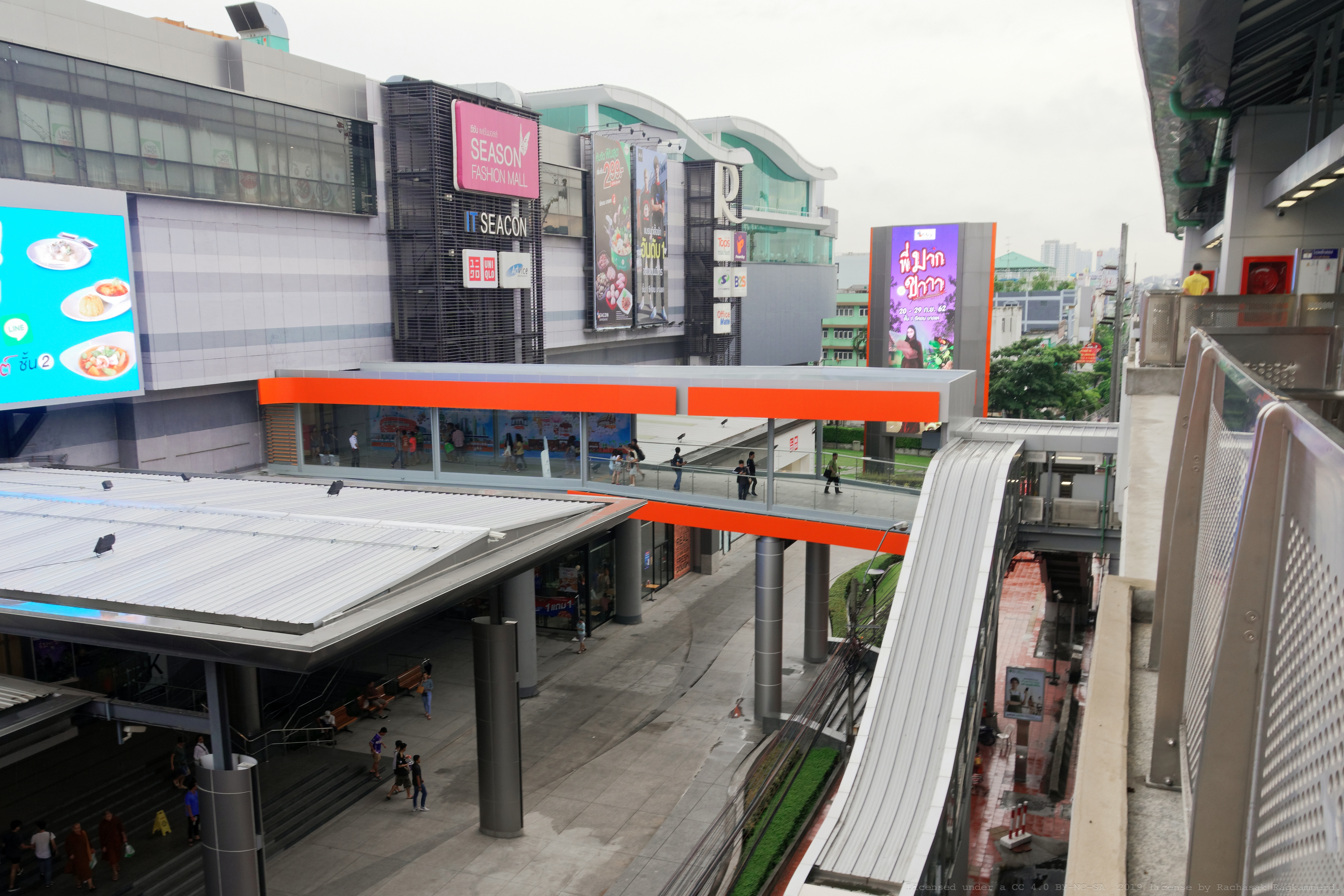 MRT Phasi Charoen station: Seacon Bangkae skywalk at the exit #2